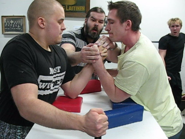 Armwrestling start position